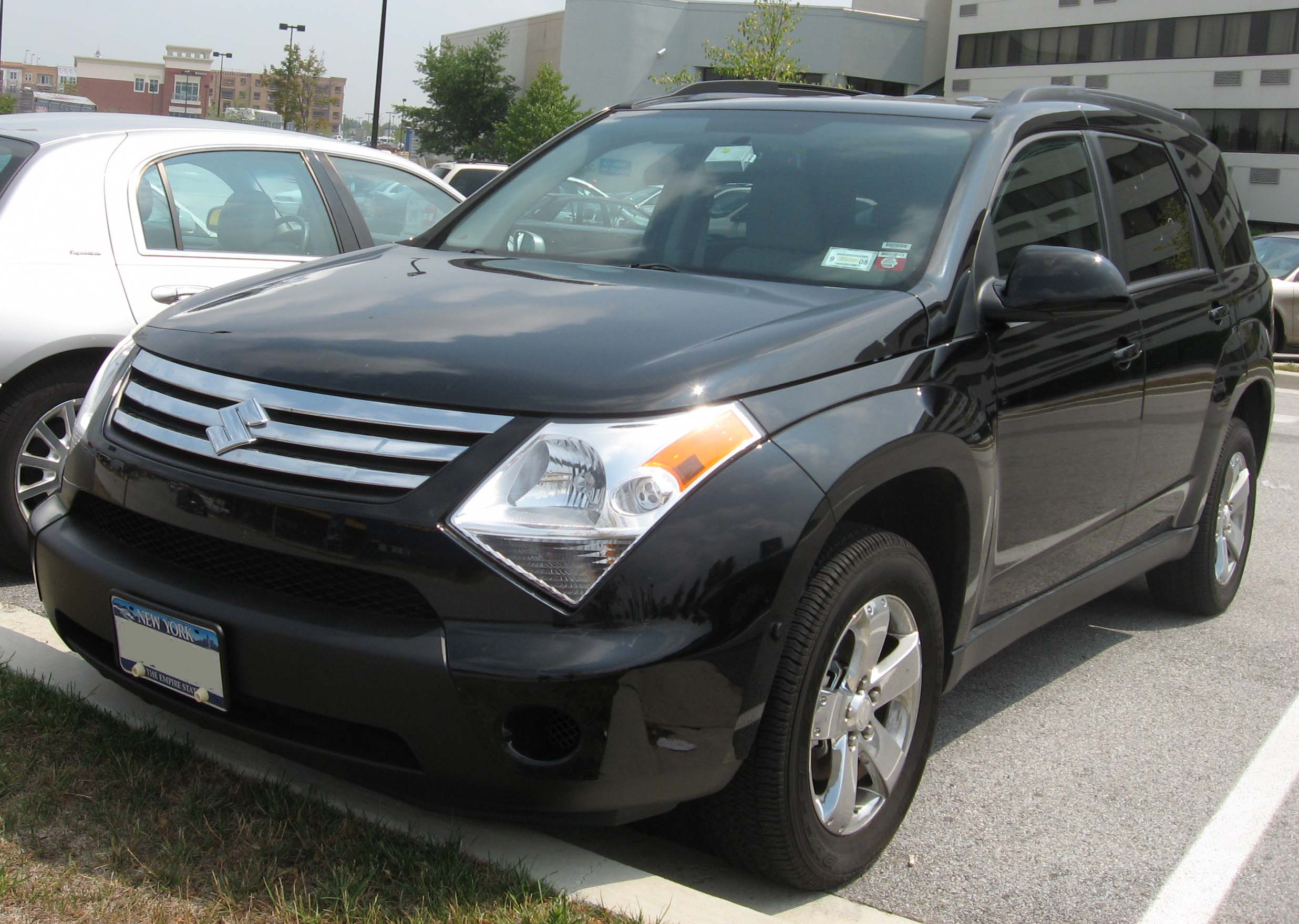 2007 Suzuki XL7 photographed in USA.